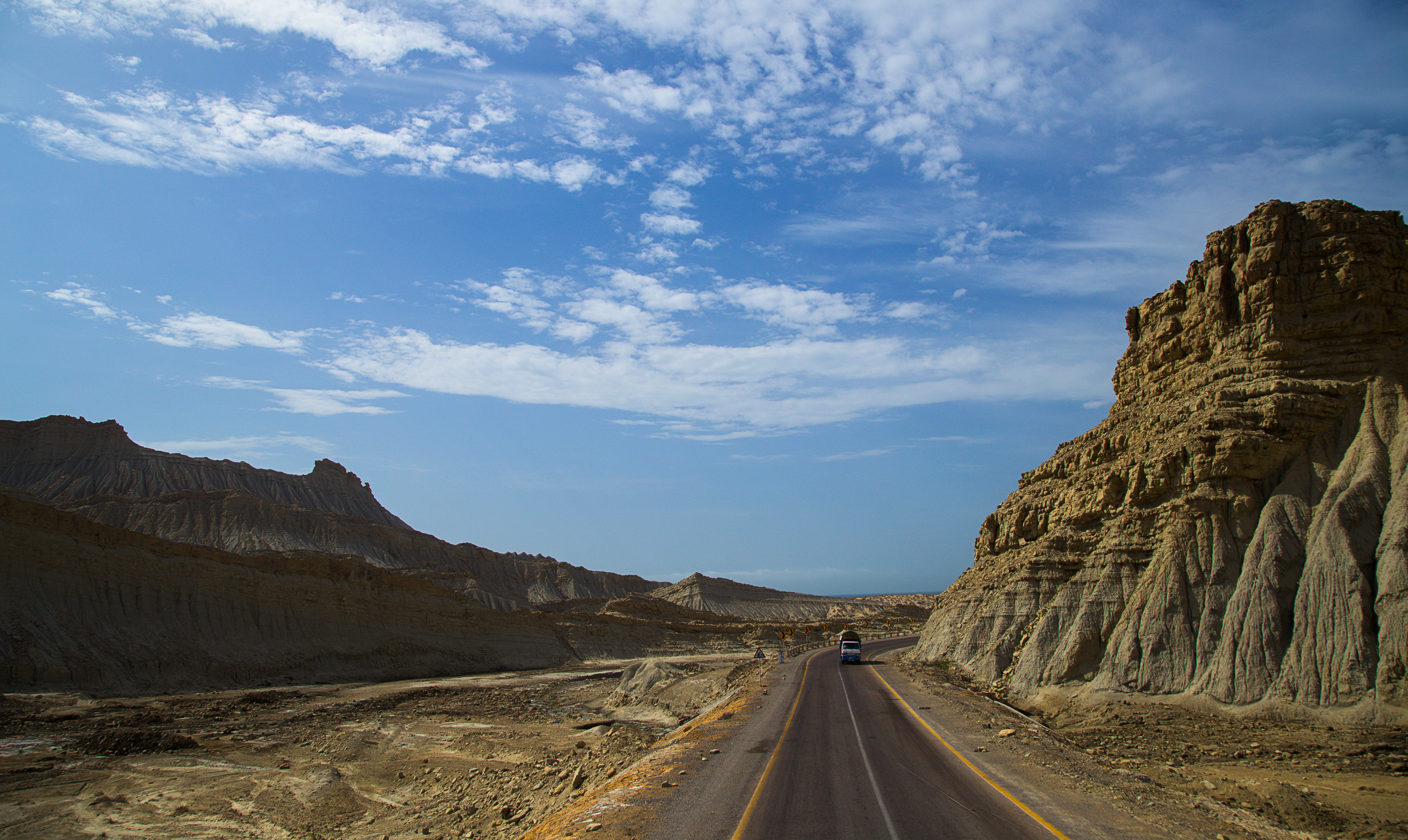 Makran coastal highway is most beautiful and prime national highway (N-10) of Pakistan, which is 653km long. It joins Karachi with Gwadar by passing the town Ormara and Pasni. During passage there are stunning dessert, mountains area, striking clear sky and stunning view of Arabian Sea.